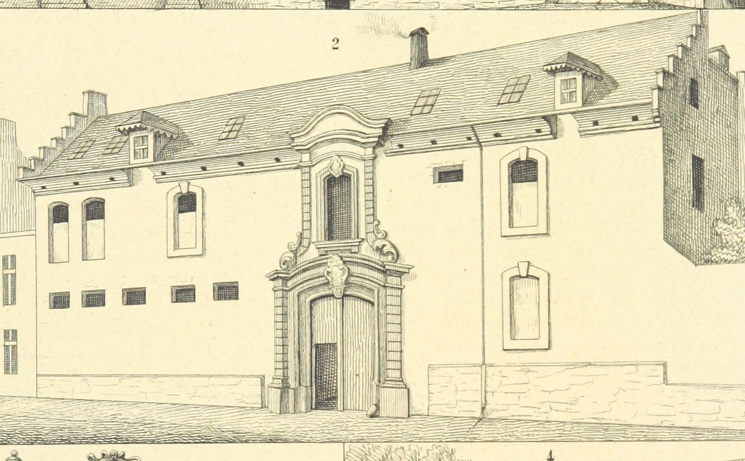 Vigliuscollege of the Leuven University (Leuven, Belgium) by Edward van Even